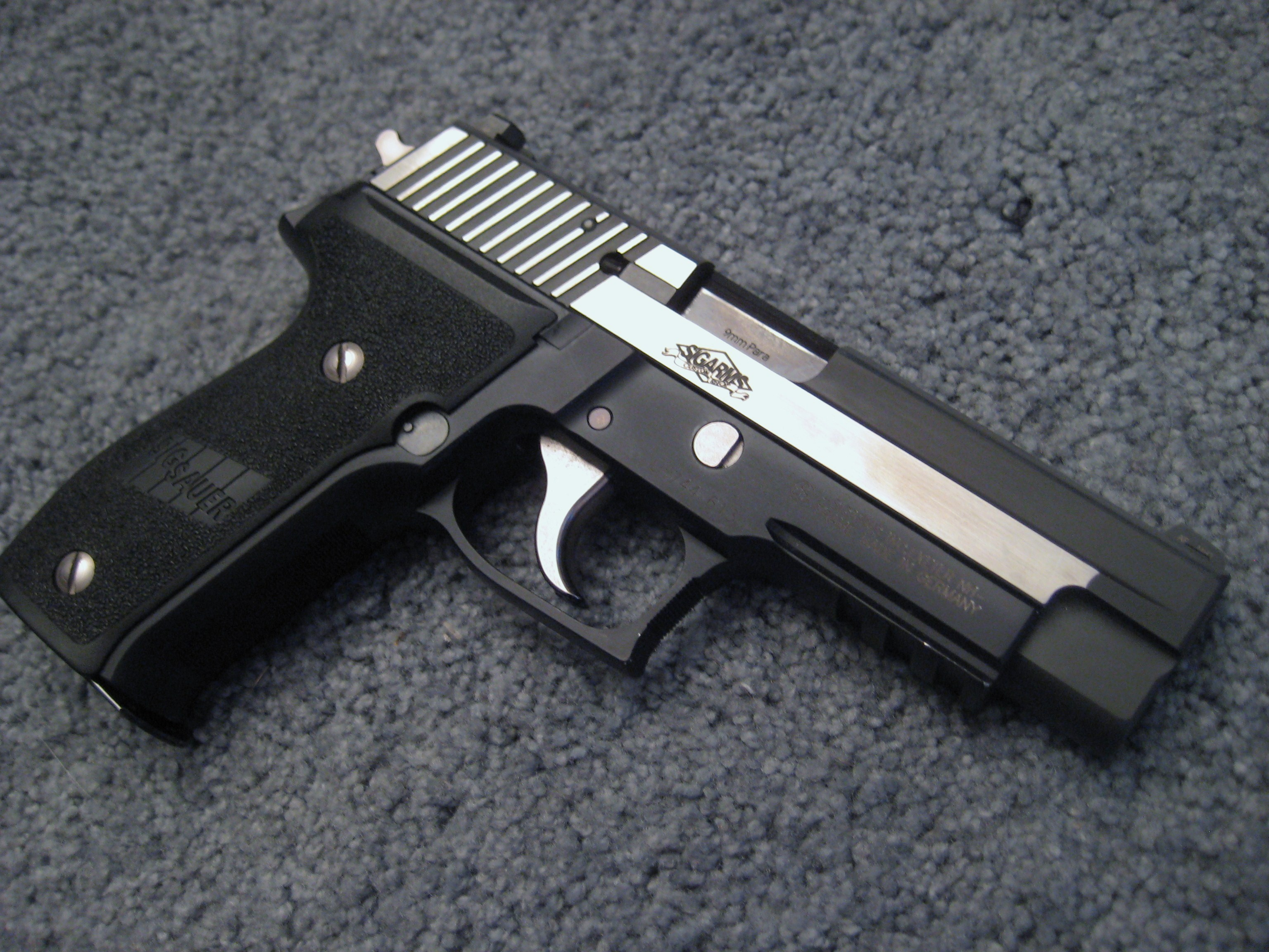 A picture of a Sig P226 PM Equinox. A limited production run of 9mm Equinox styled P226's.